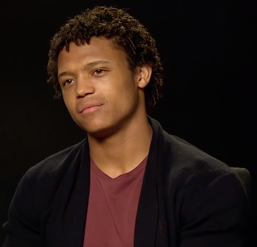 Percelle Ascot being interviewed about The Innocents, 2018